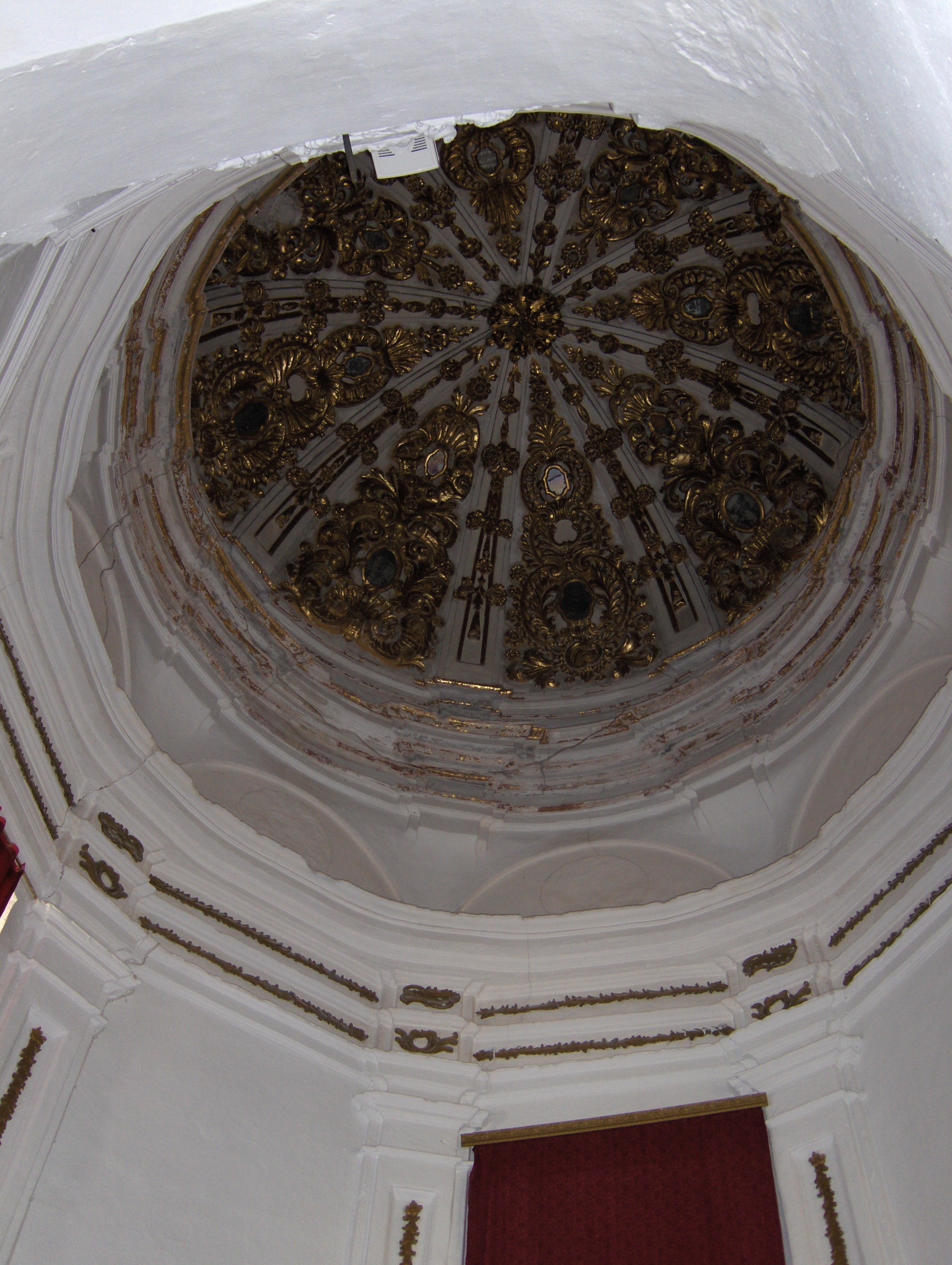 Church of the Incarnation, Comares.